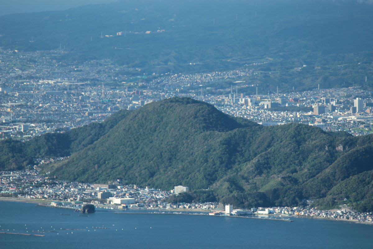 Mount Tokura as seen from the SSW in Numazu, Shizuoka Prefecture. Taken from Darumayama-kogen Rest House.